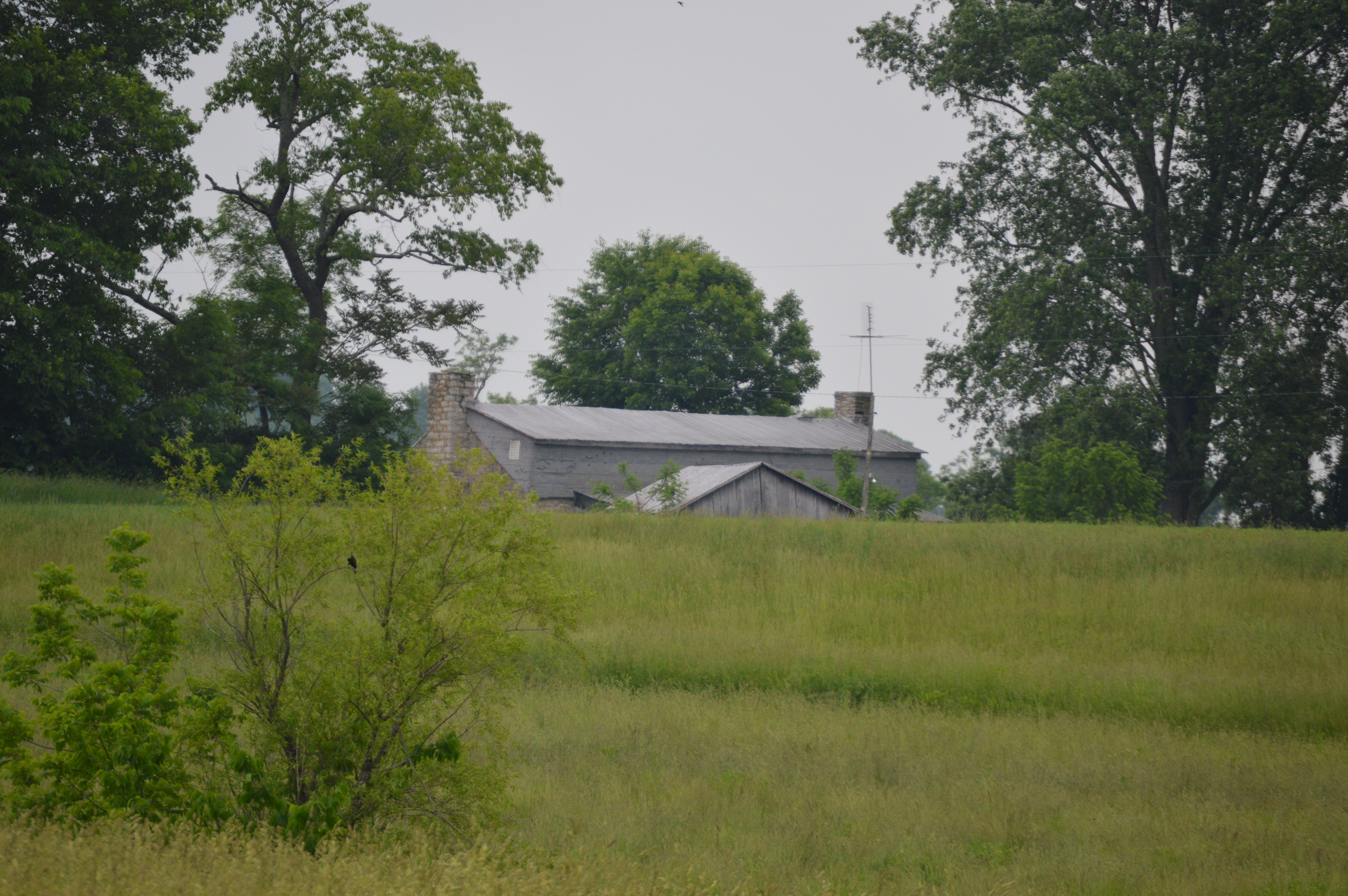 Looking southeast from Little Curtis Road toward the Thomas Metcalf House, located southwest of Mount Olivet in Robertson County, Kentucky, United States. Built in 1810 by future Kentucky governor Thomas Metcalfe, it is listed on the National Register of Historic Places.